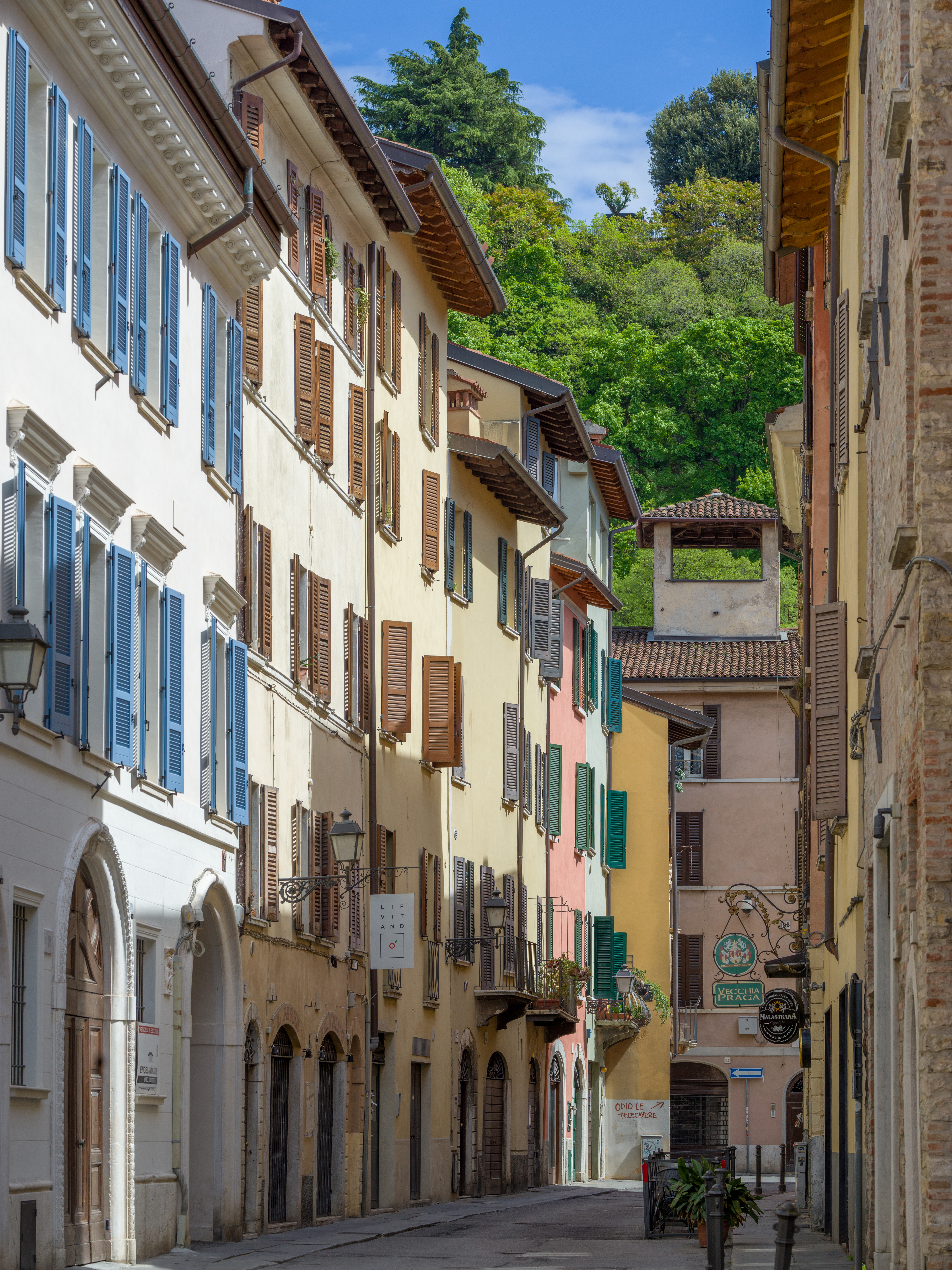 Contrada Pozzo dell'Olmo street in Brescia.